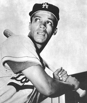 Professional baseball player Maury Wills